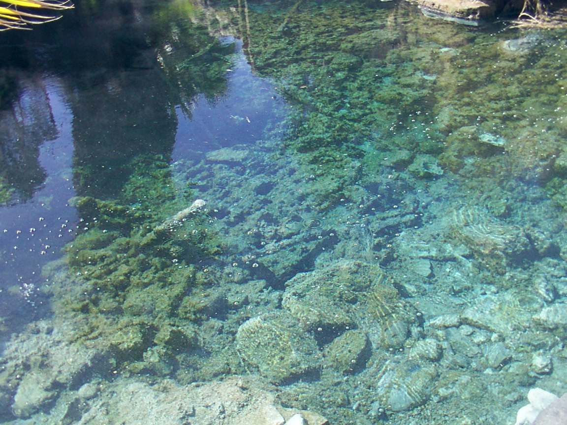 spring water